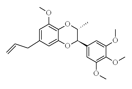 Chemical structure of eusiderin